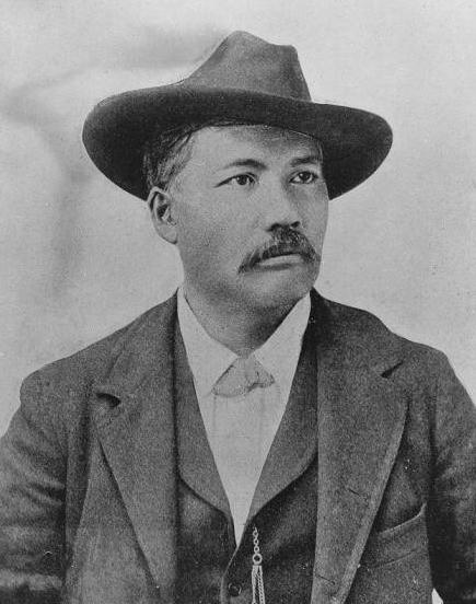 Photograph taken 1876